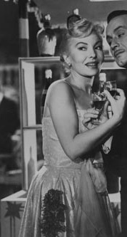 Nélida Romero- actriz argentina